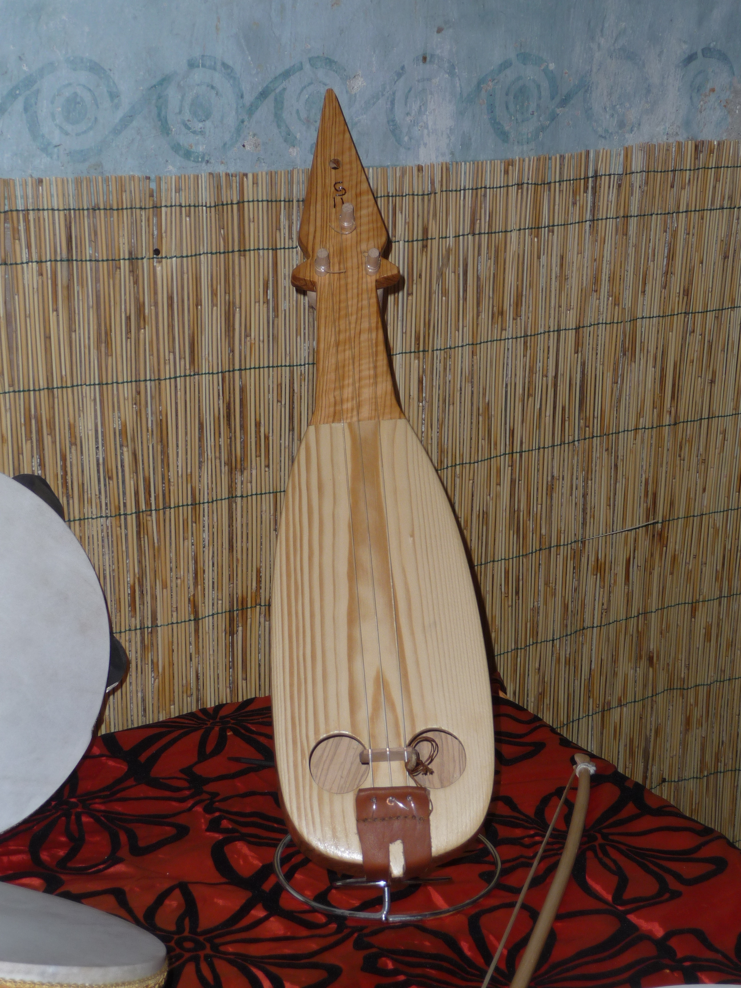 Lira Calabrese or Calabrian Lira